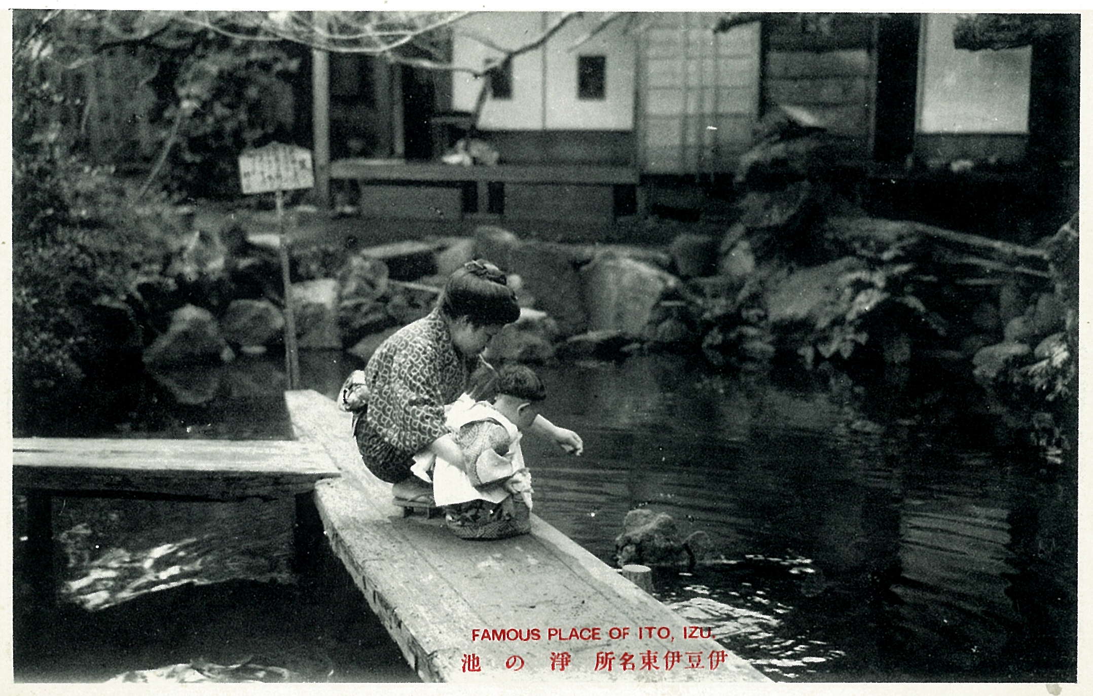 Jono-ike pond postcard.1910s